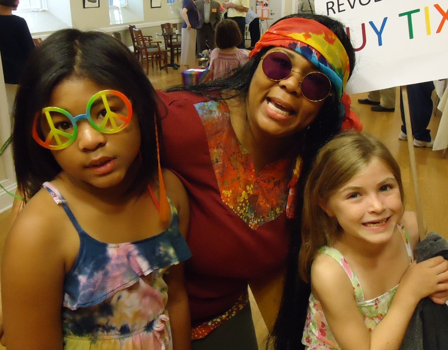 Unitarian church members dressed up in '60s peace movement attire to promote the Services Auction fund-raising event for charity.